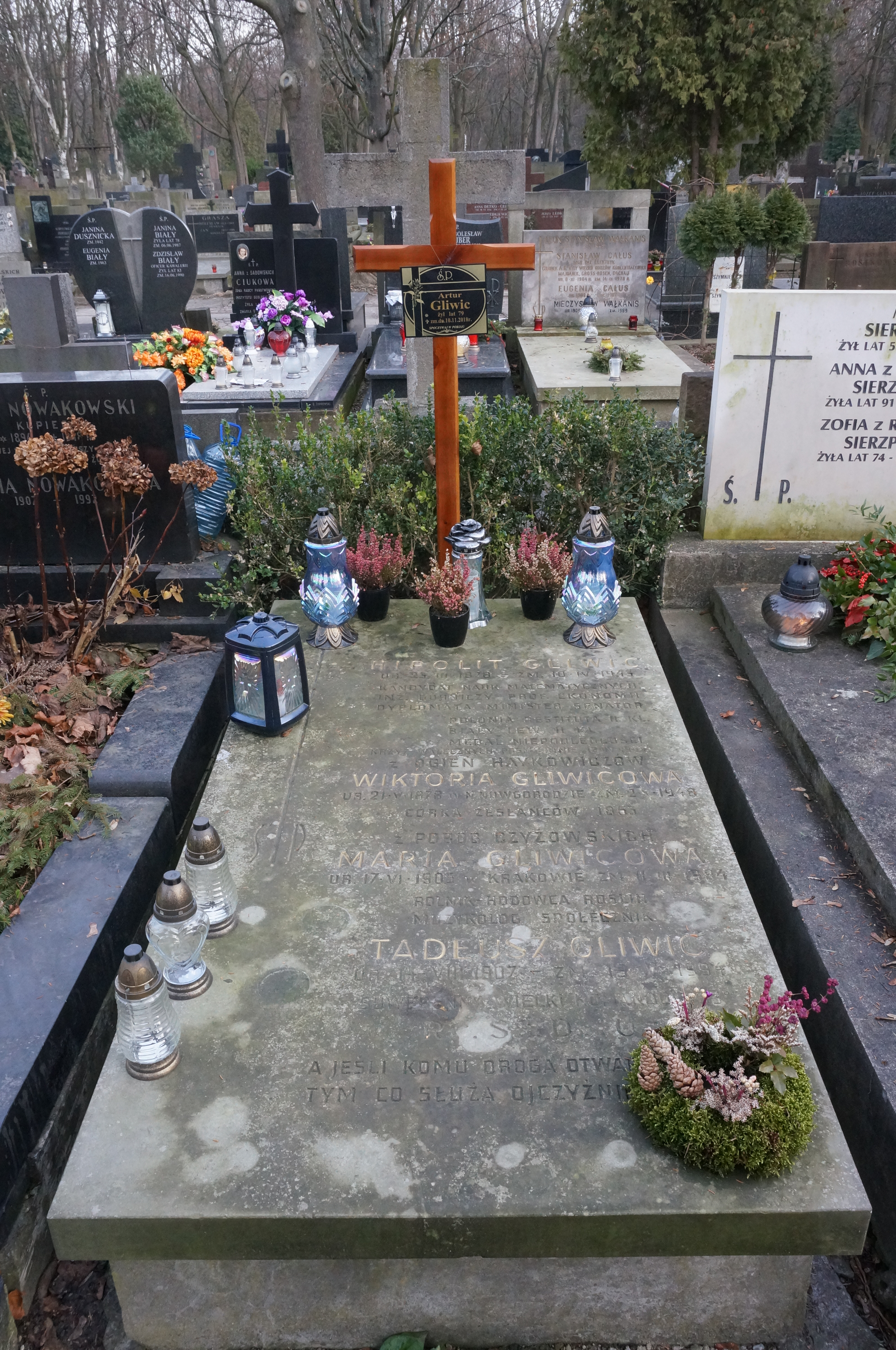 The grave of Hipolit Gliwic at the Powązki Cemetery (section 241, row 4, grave 20)